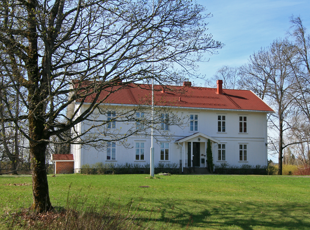 Eidsvoll parsonage, Eidsvoll, Norway.